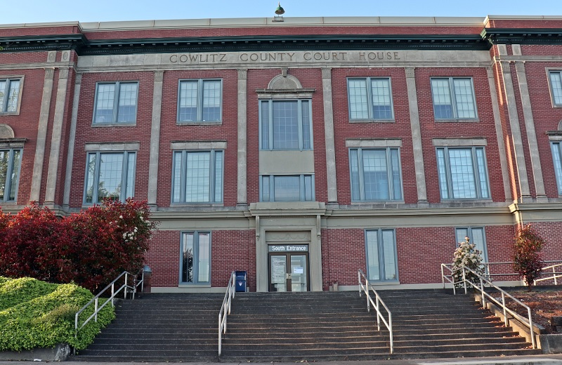 The Cowlitz County Courthouse pictured in 2020